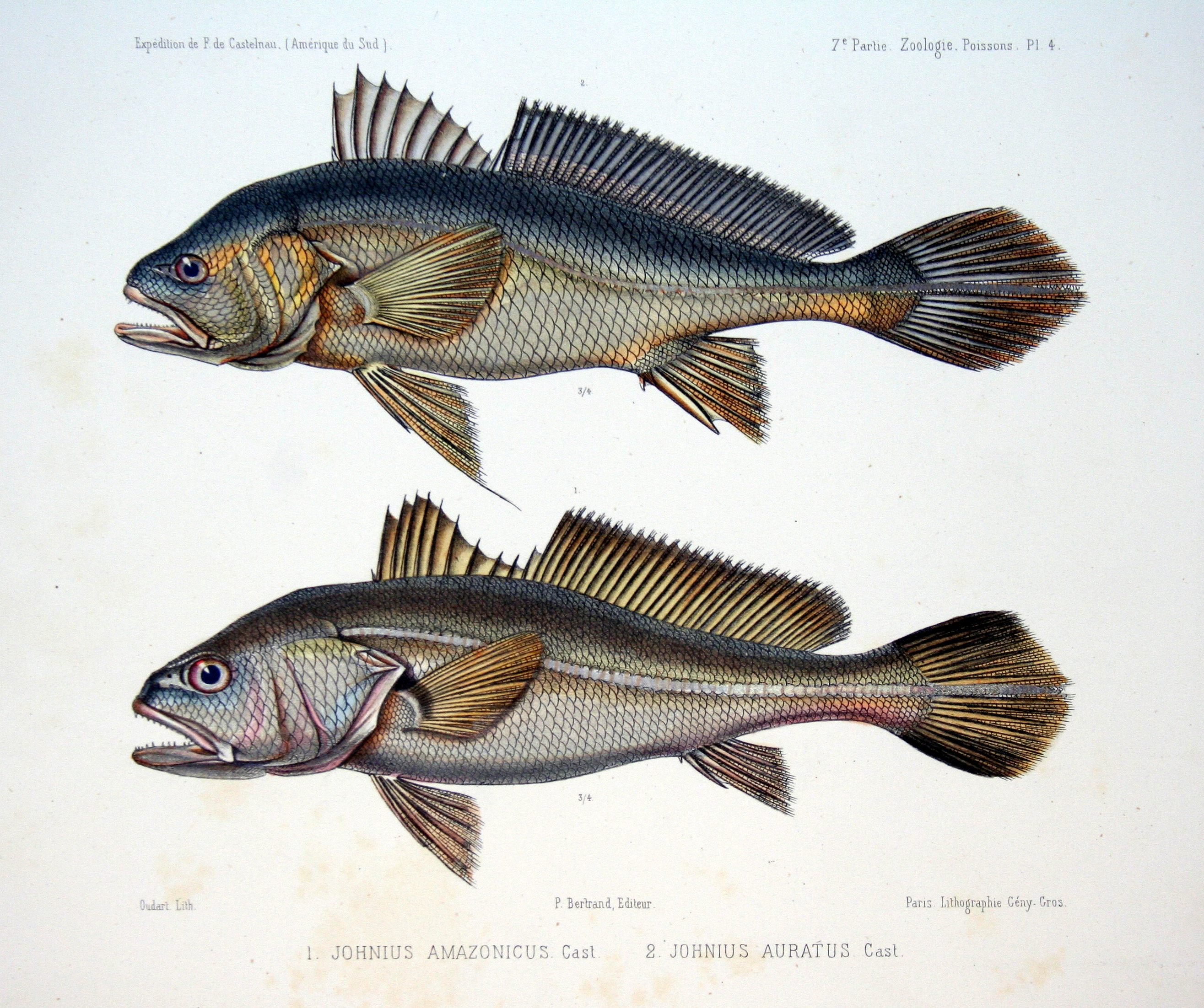 From top to bottom: Johnius auratus = Plagioscion auratus Johnius amazonicus = Plagioscion squamosissimus